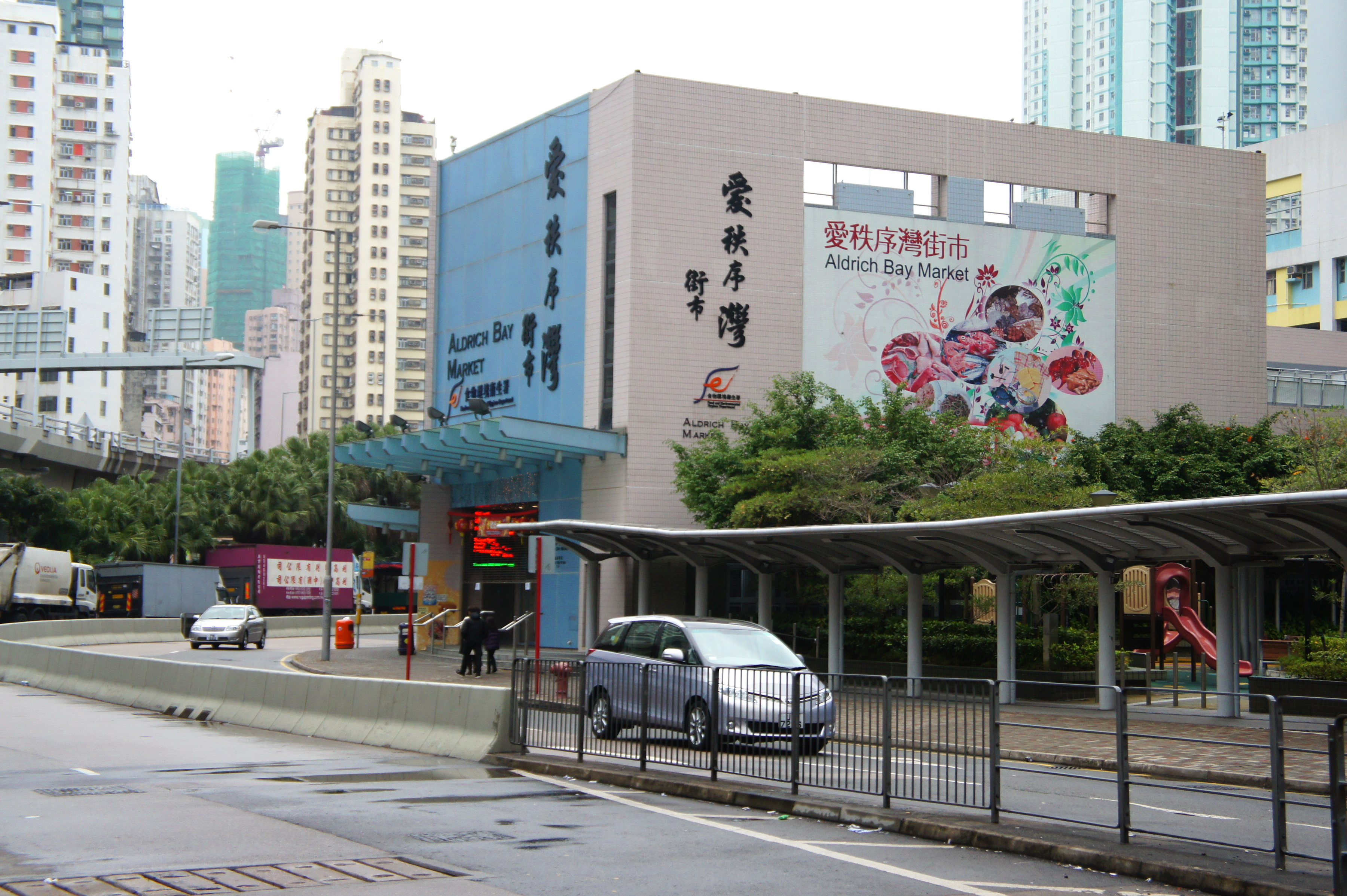 Aldrich Bay Integrated Services Building, 15 Aldrich Bay Road, Shau Kei Wan, Hong Kong.